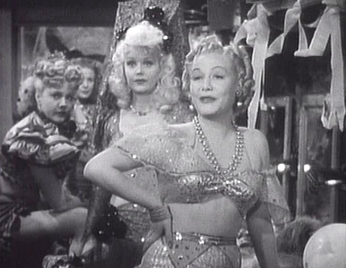 Cropped screenshot of Marion Martin and Gloria Dickson from the film Lady of Burlesque.